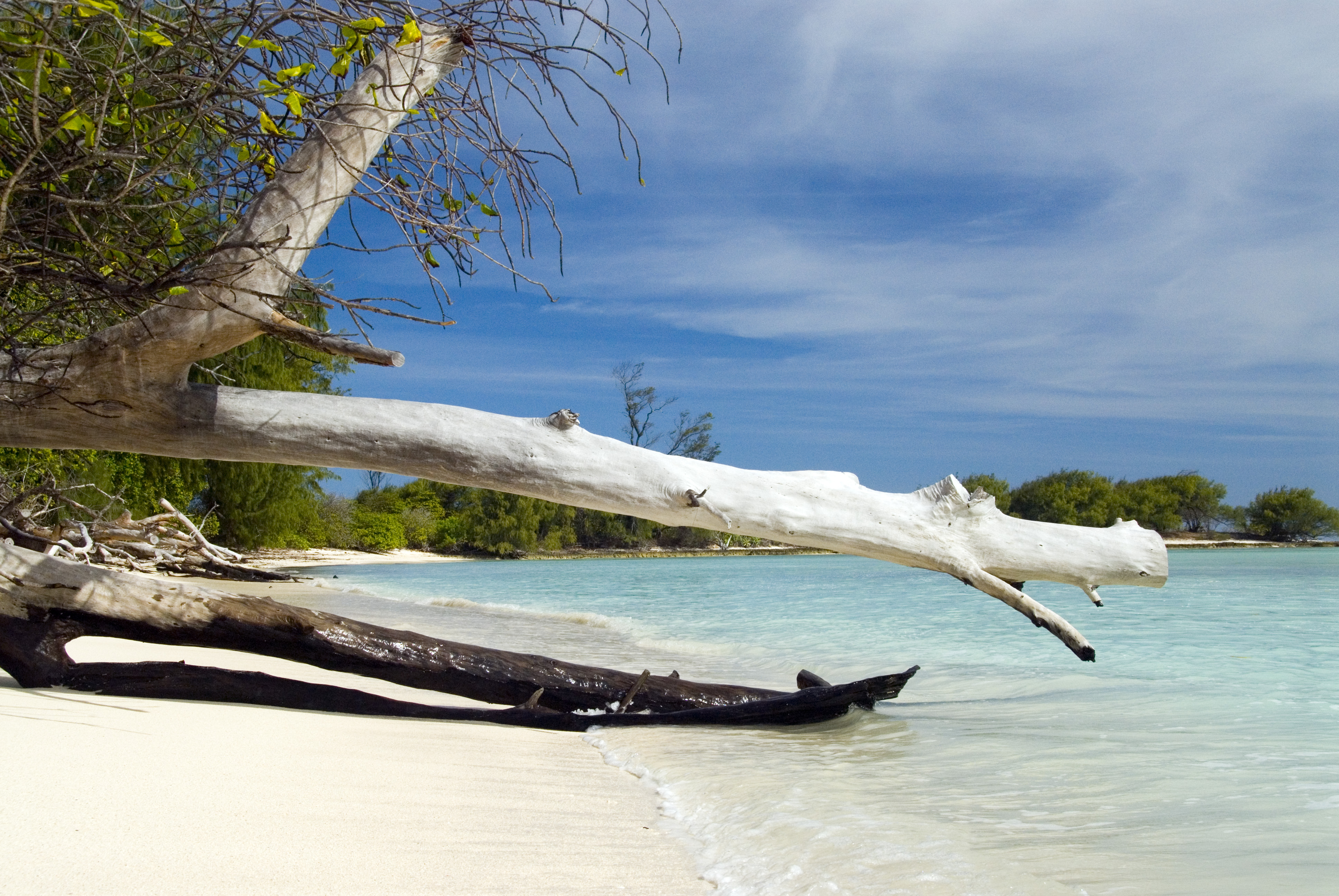 Desroches Island, beach of the southern part of the island